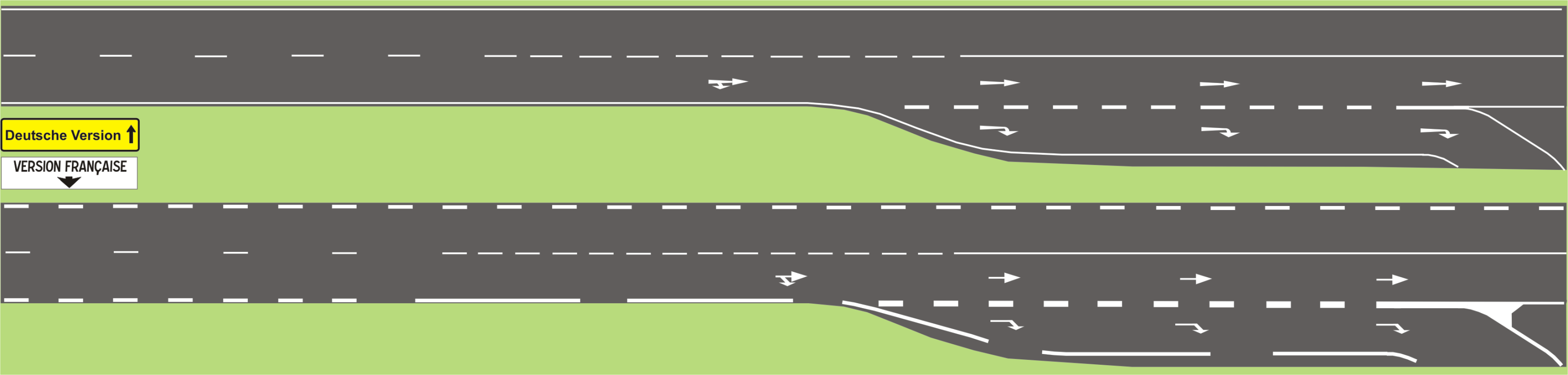 road marking